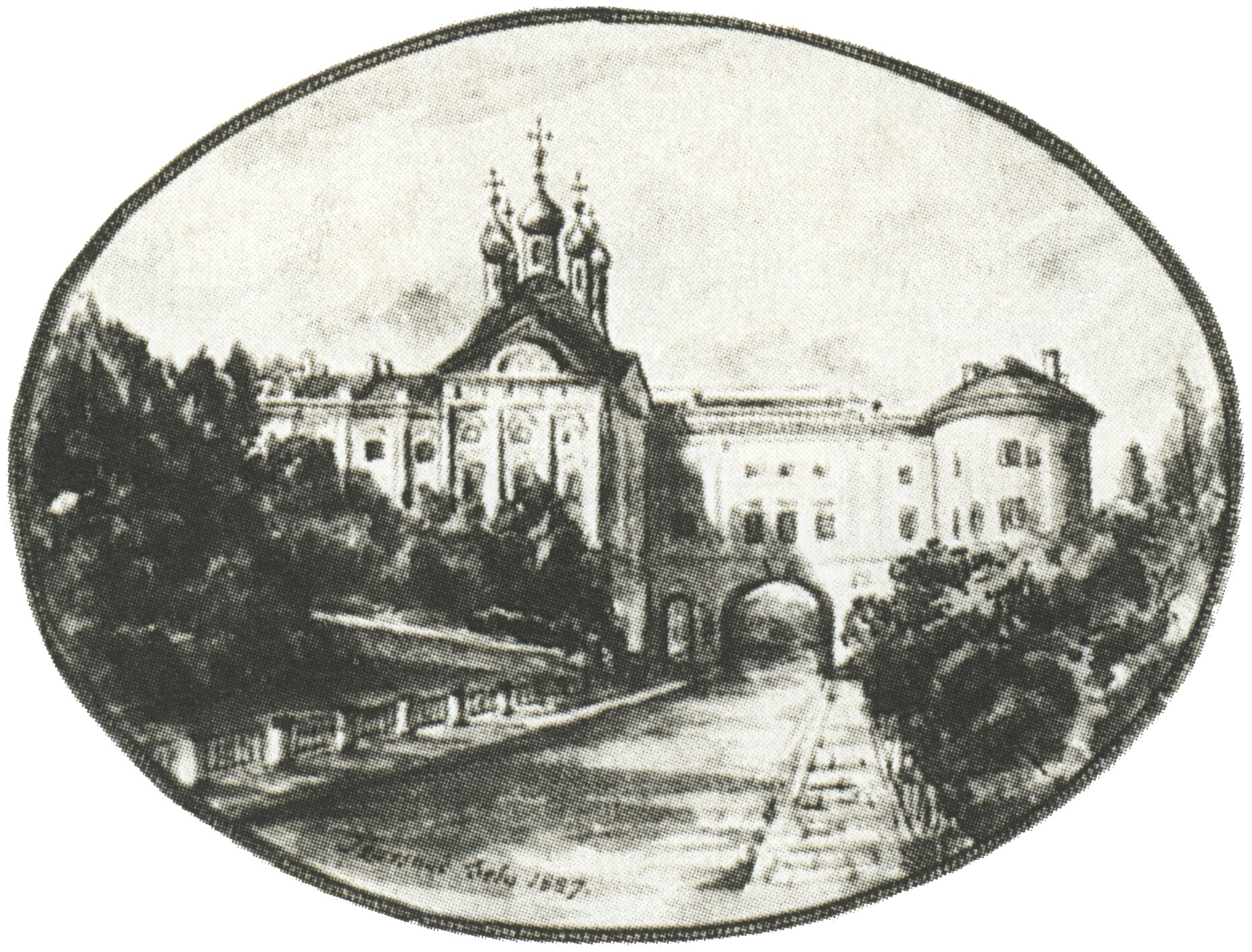 Liceum_in_Carskoe_Selo,_Peterburg